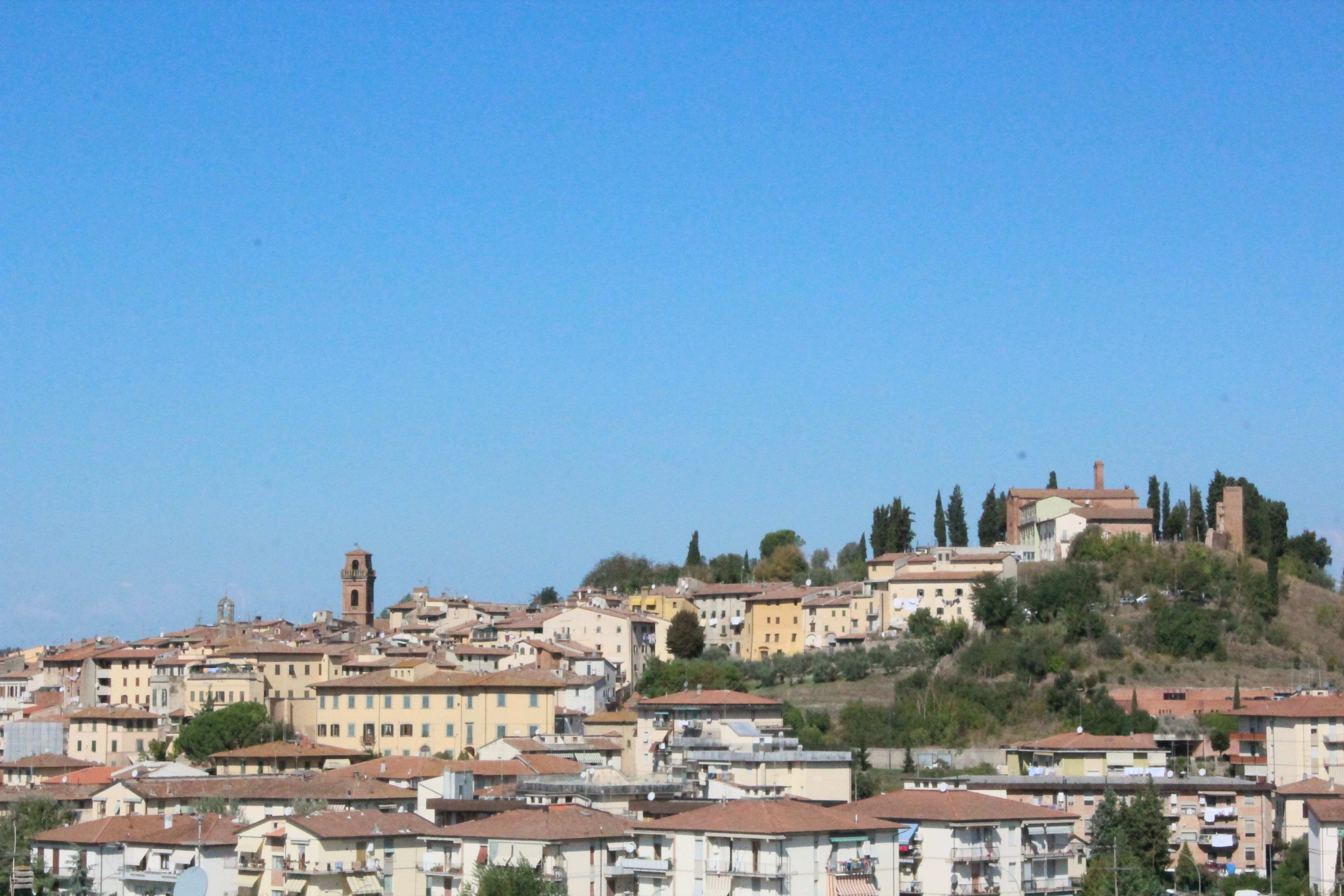 Panorama of Castelfiorentino, Province of Florence, Tuscany, Italy